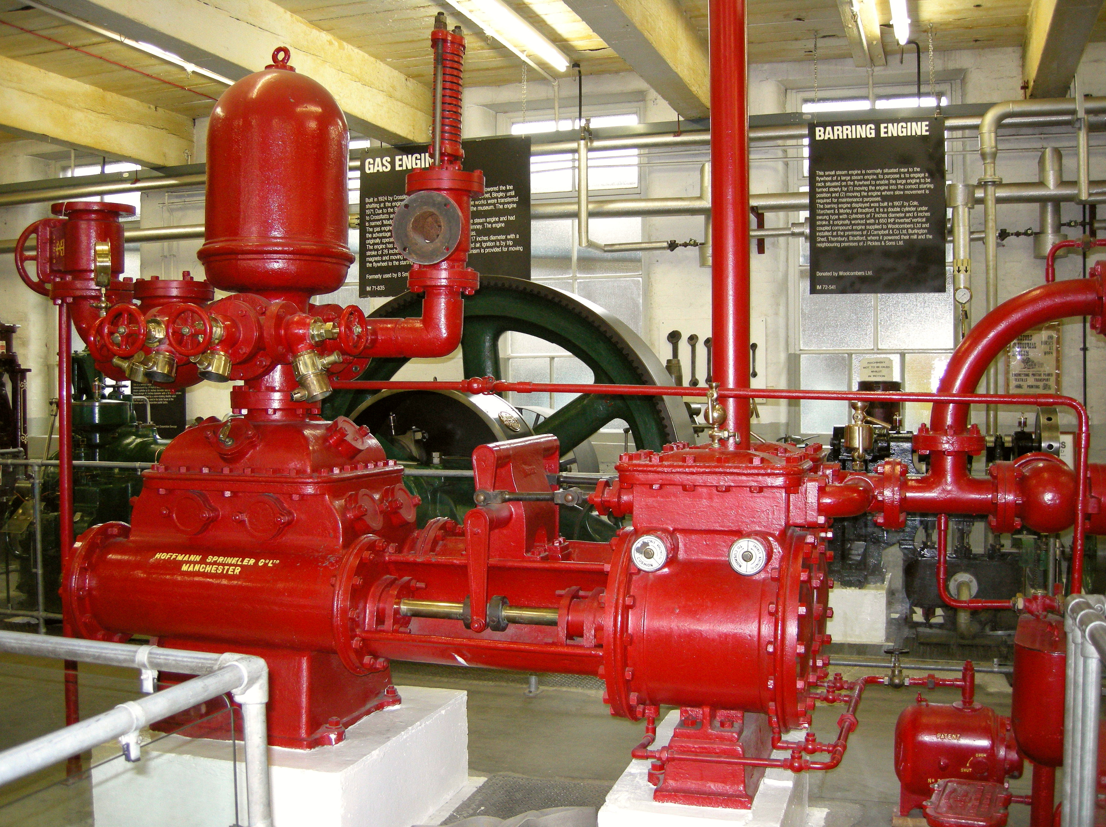 Hoffman sprinkler in motive power room at Bradford Industrial Museum, Bradford, West Yorkshire, England. 53.48'.40".N; 1.43'.16".W.